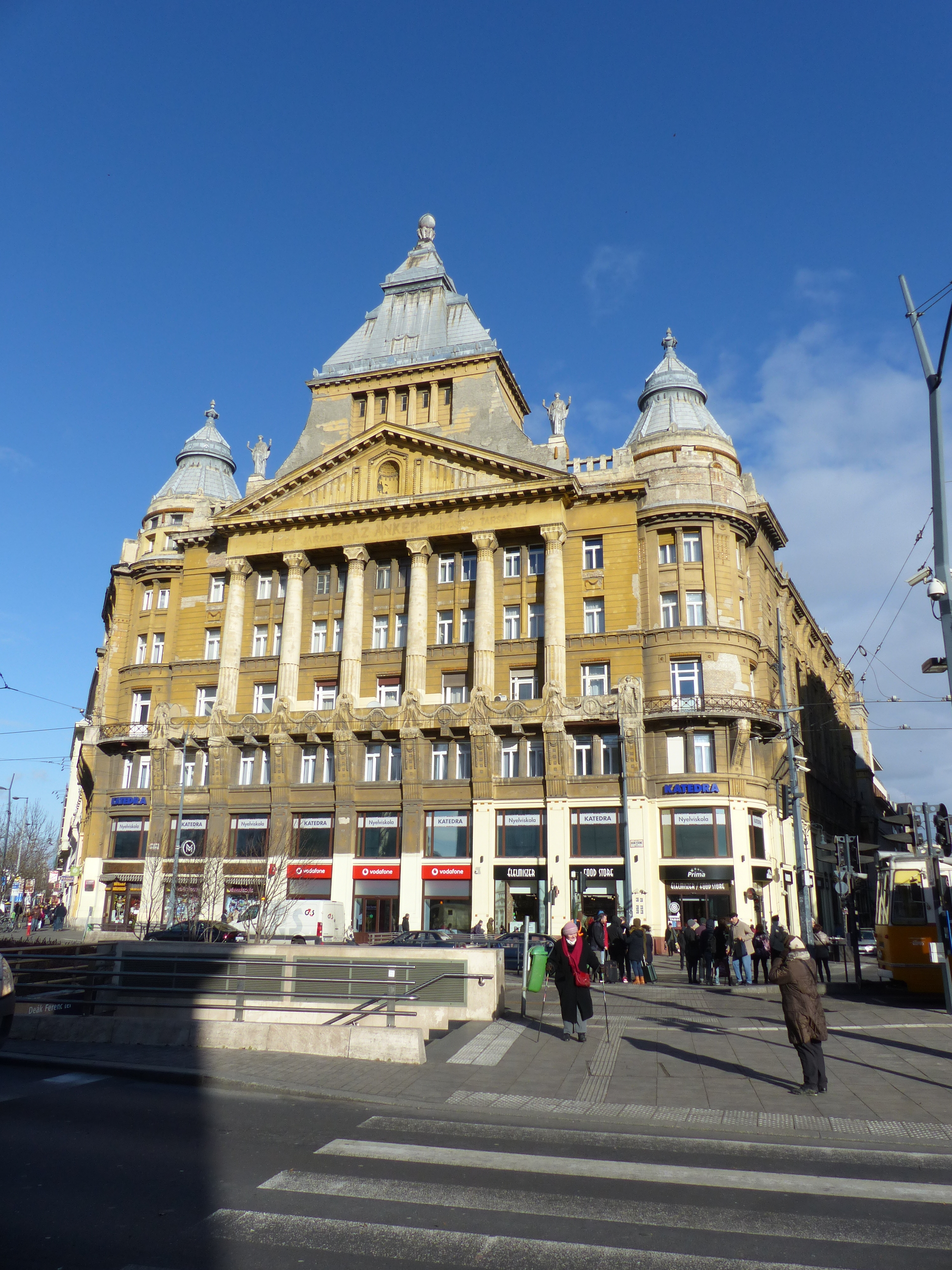 A Deák Ferenc tér 6 szám mellett további közigazgatási címei a társasház további közigazgatási címei: Bajcsy-Zsilinszky út 1 szám, Anker köz 1-3 szám, Király utca 2 szám